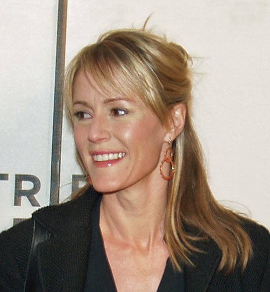 Mary Stuart Masterson by David Shankbone